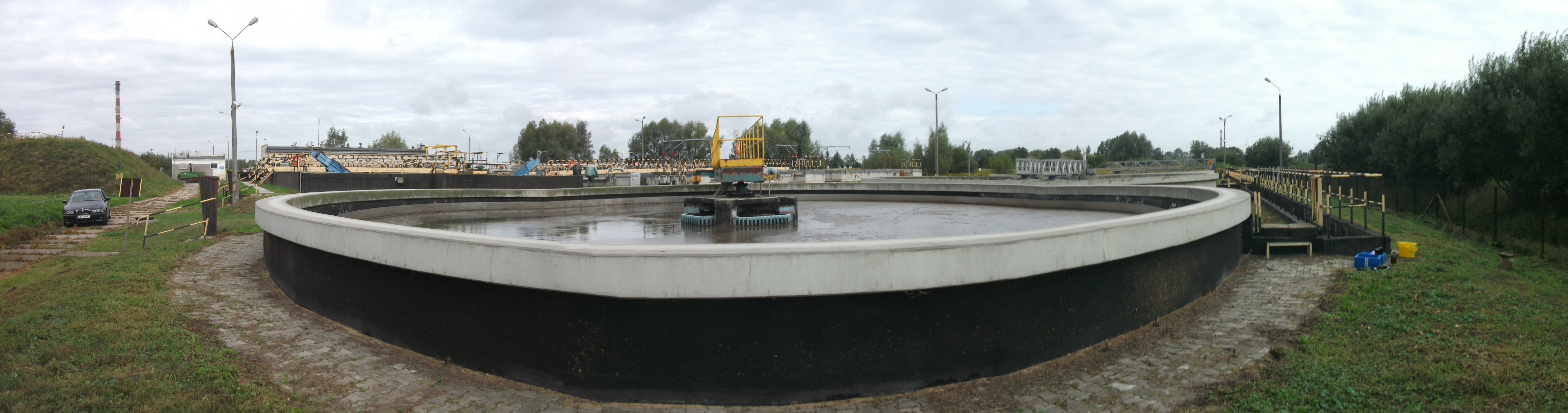 Part of sewage treatment plant in Wieluń.